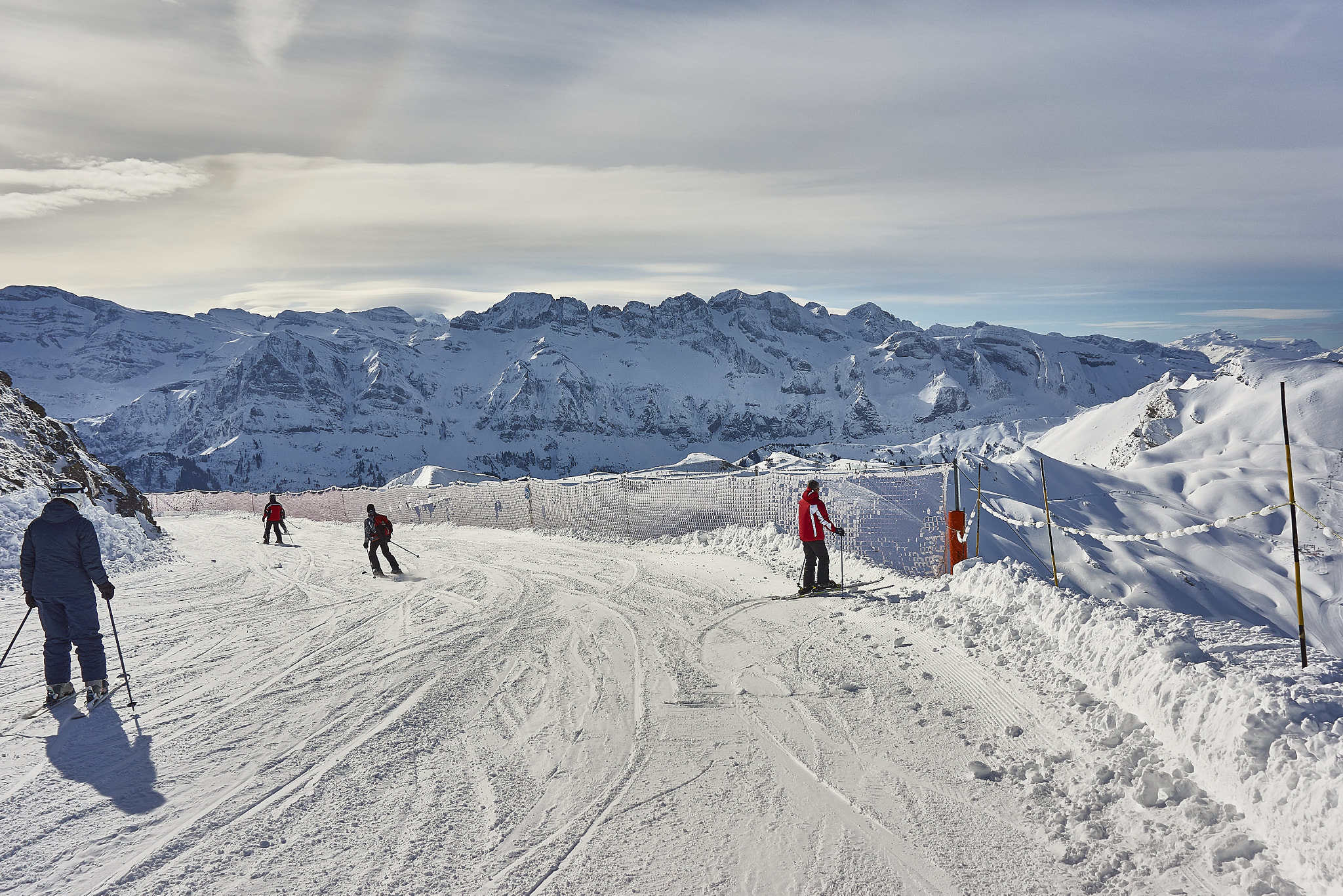 500px provided description: my Youtube Video from les Crosets: [#switzerland ,#mountains ,#winter ,#cold ,#white ,#snow ,#alps ,#alpes ,#Swiss ,#Ski ,#Portes Du Soleil]